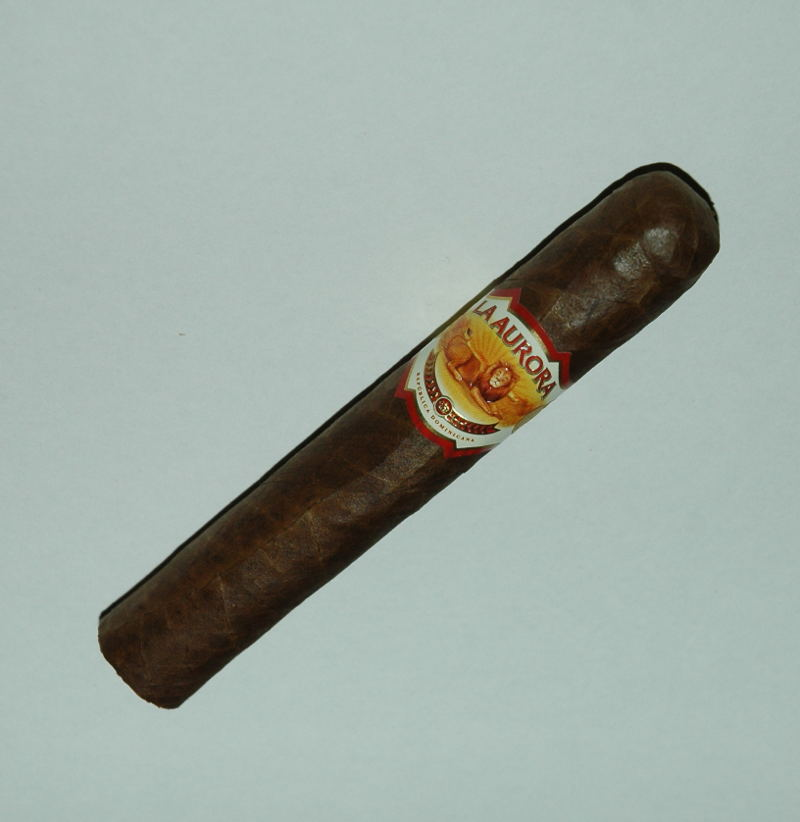 La Aurora cigar from the Dominican Republic